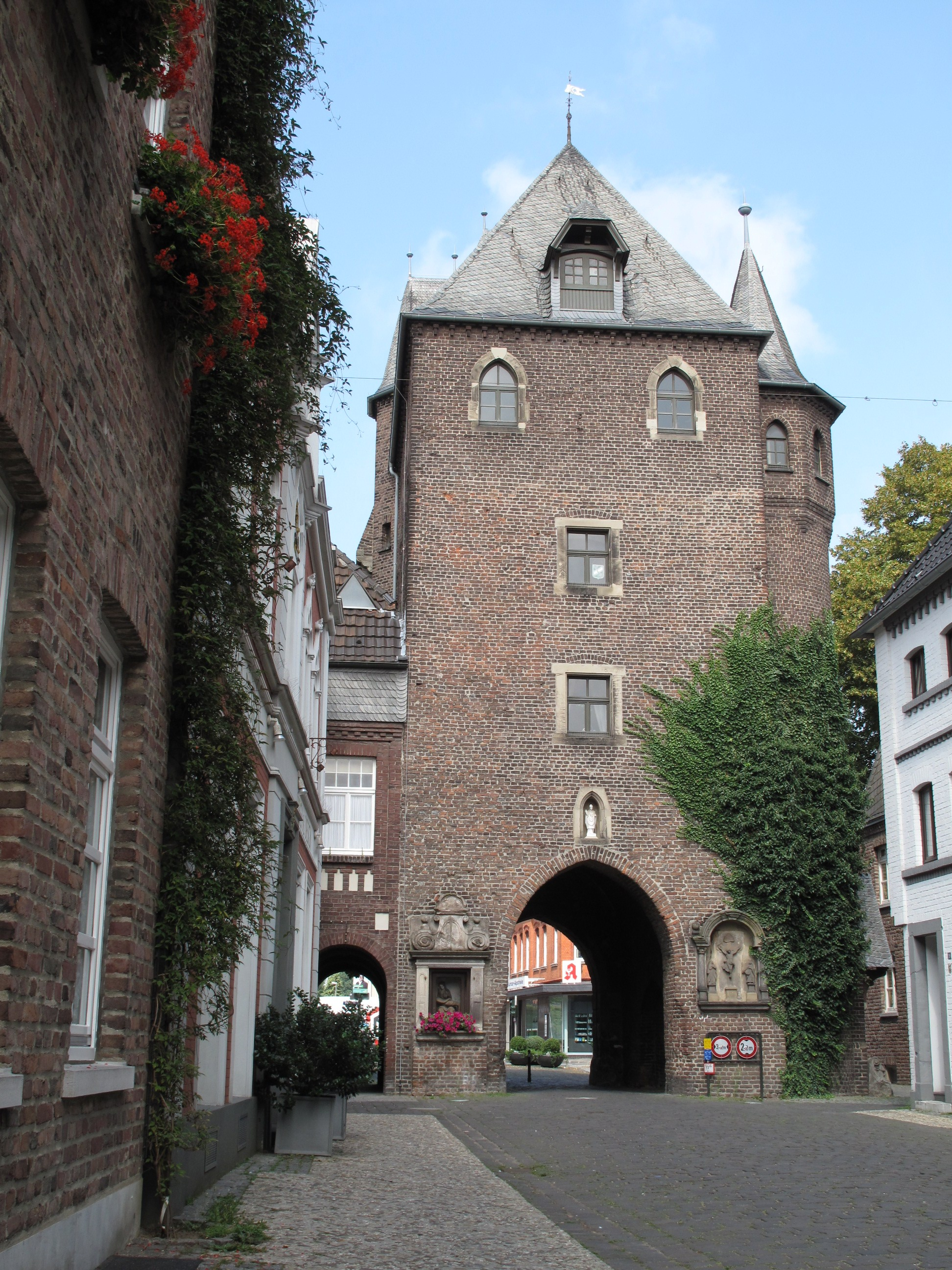 Kempen, town gate: Kuhtor